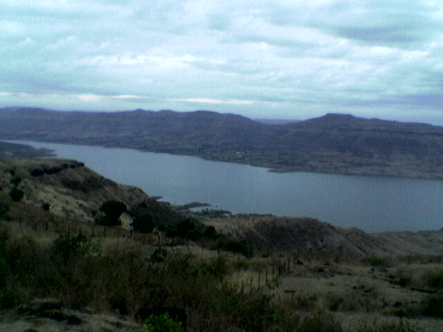 Nice view of Kanher Dam